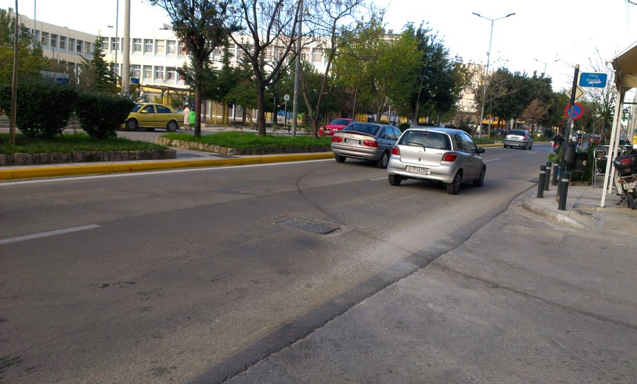 aigaleo